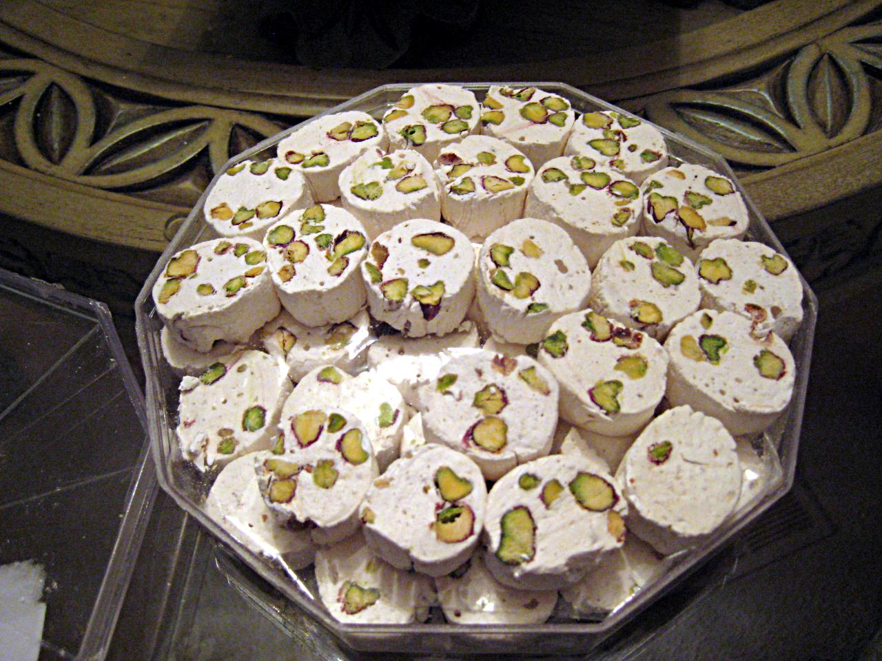 Gaz Candy: A Persian/Iranian Sweet